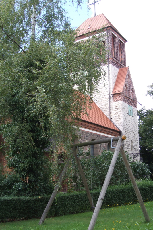 Church in Berlin-Rosenthal, Germany Version with higher resolution is available